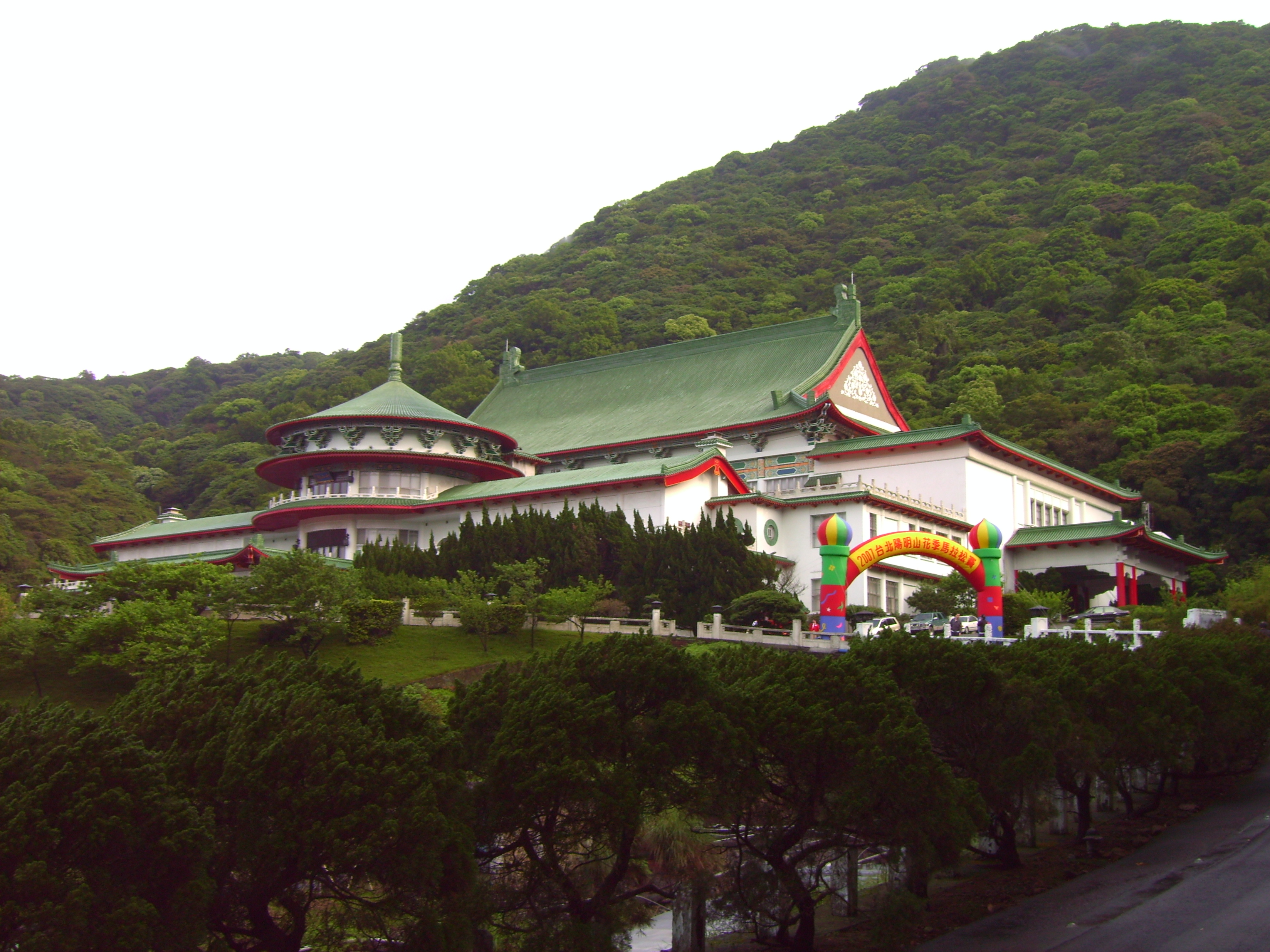 Yangmingshan Zhongshan Building.中文（台灣）: 陽明山中山樓。